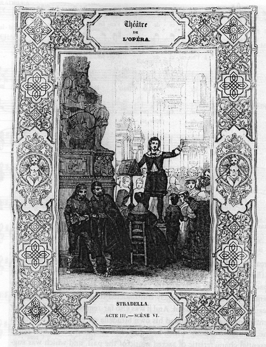 Scene from Louis Niedermeyer's opera Stradella (1837). Contemporary print by unknown artist.